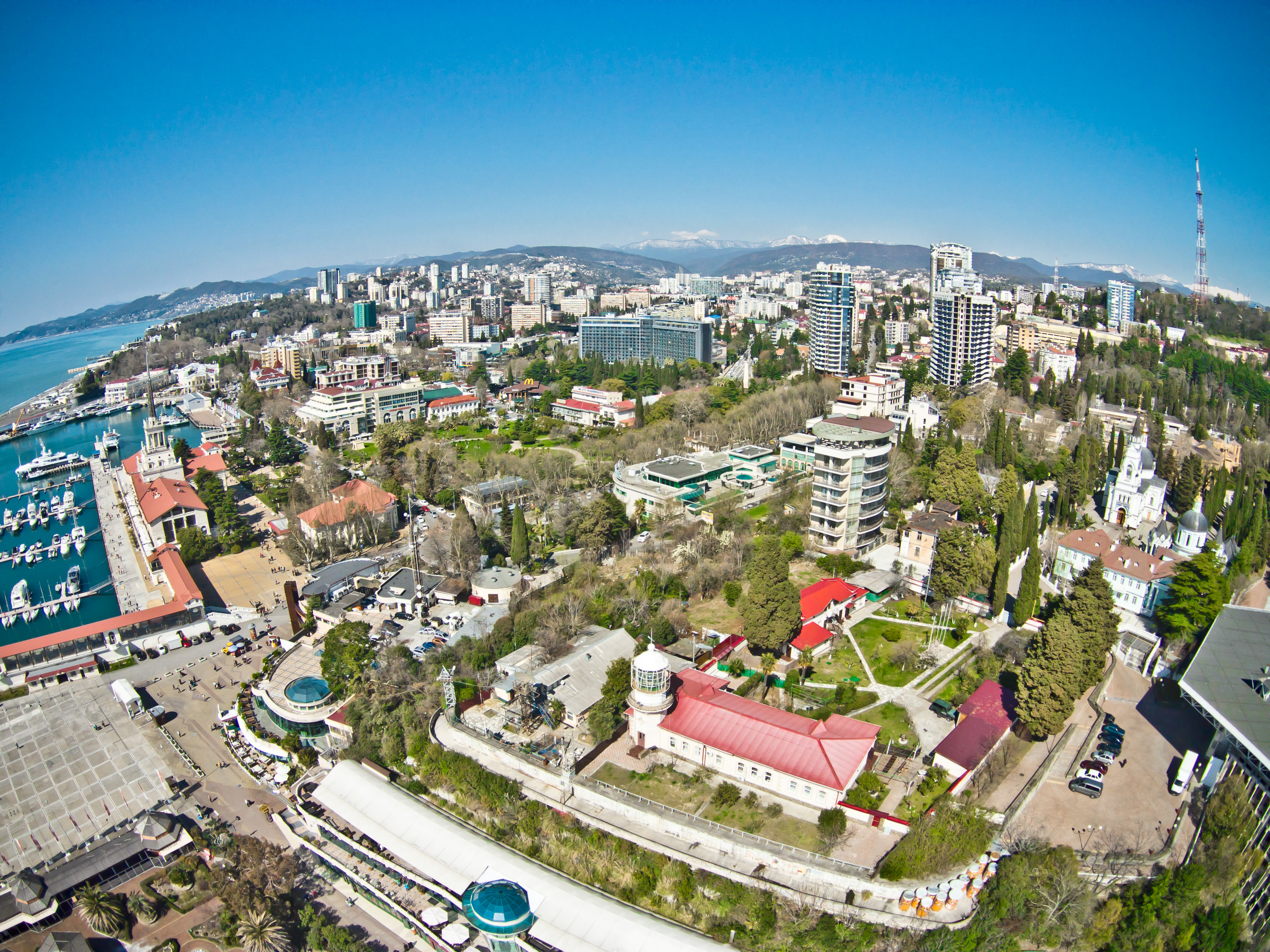 Sochi Lighthouse, Sea port of Sochi and Saint Michael Church, Tsentralny District, Sochi. Hight of aerial photograph: 69 m. 30.03.2017